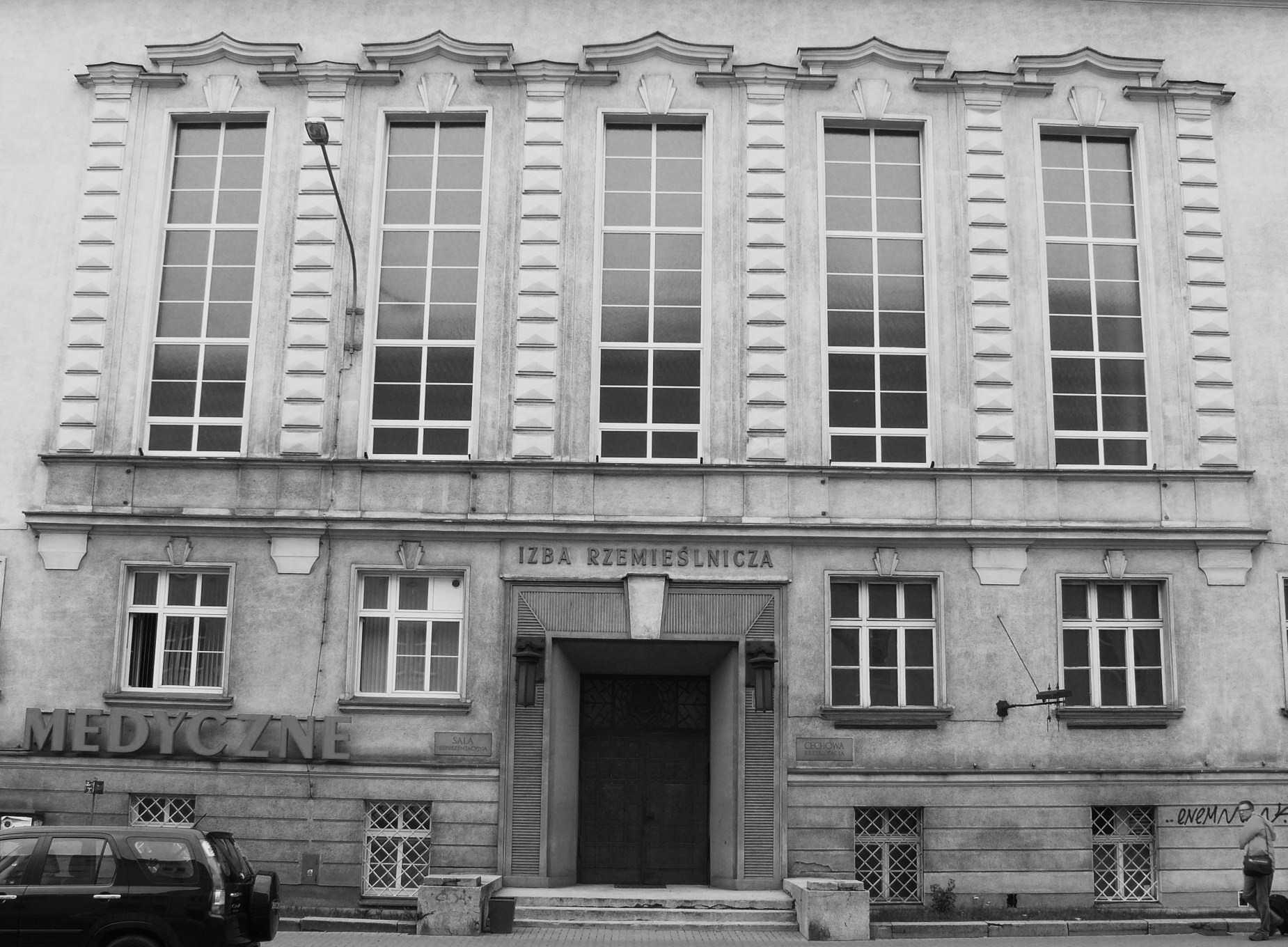 Guild House - Poznan.